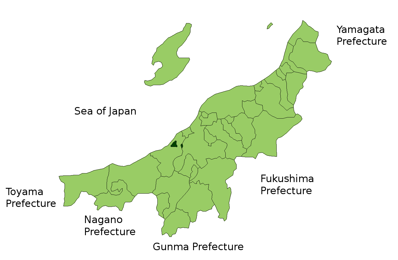 Location Map of Kariwa in Niigata Prefecture, Japan